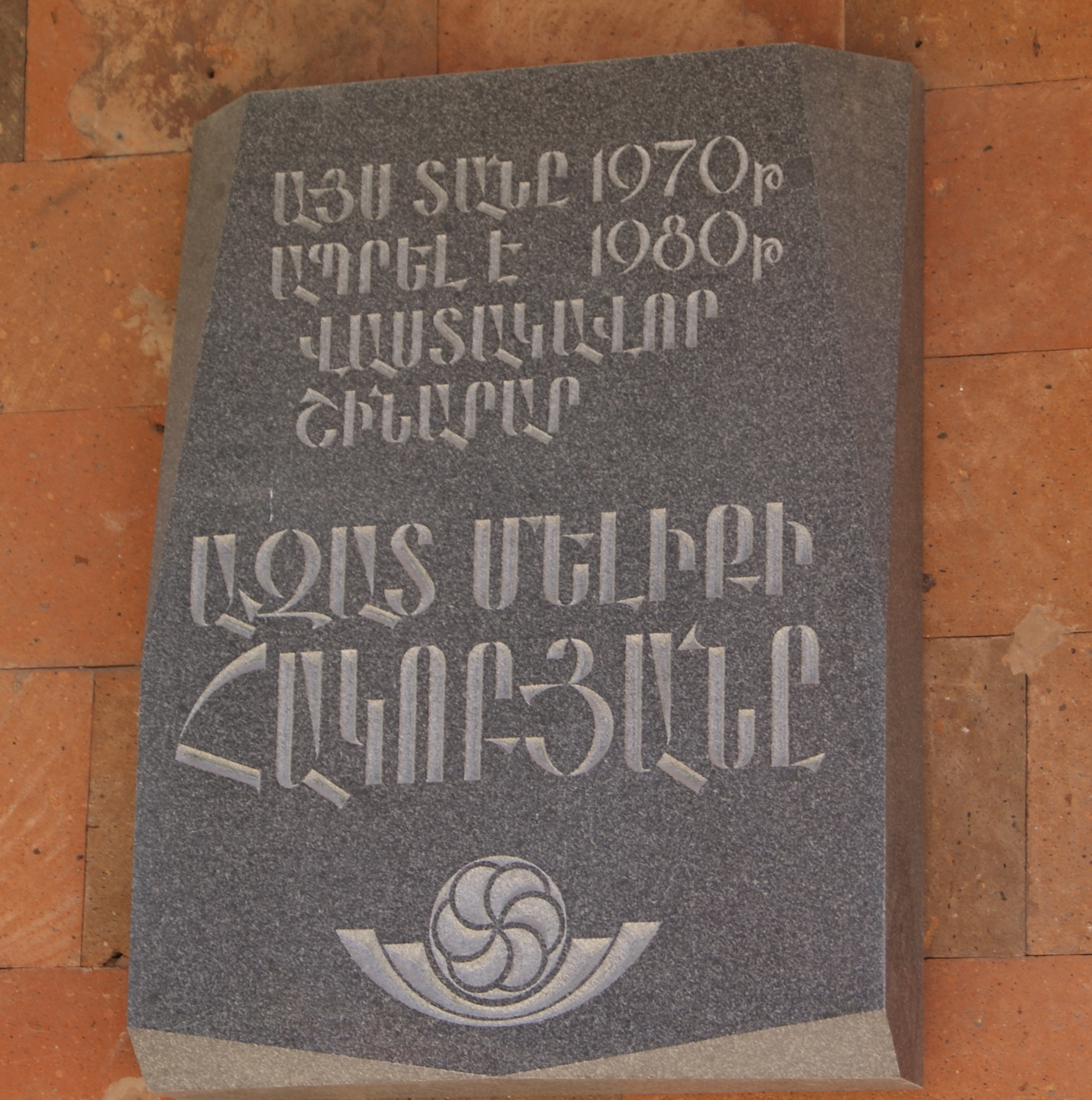 Azat Hakobyan's plaque on Moskovyan street